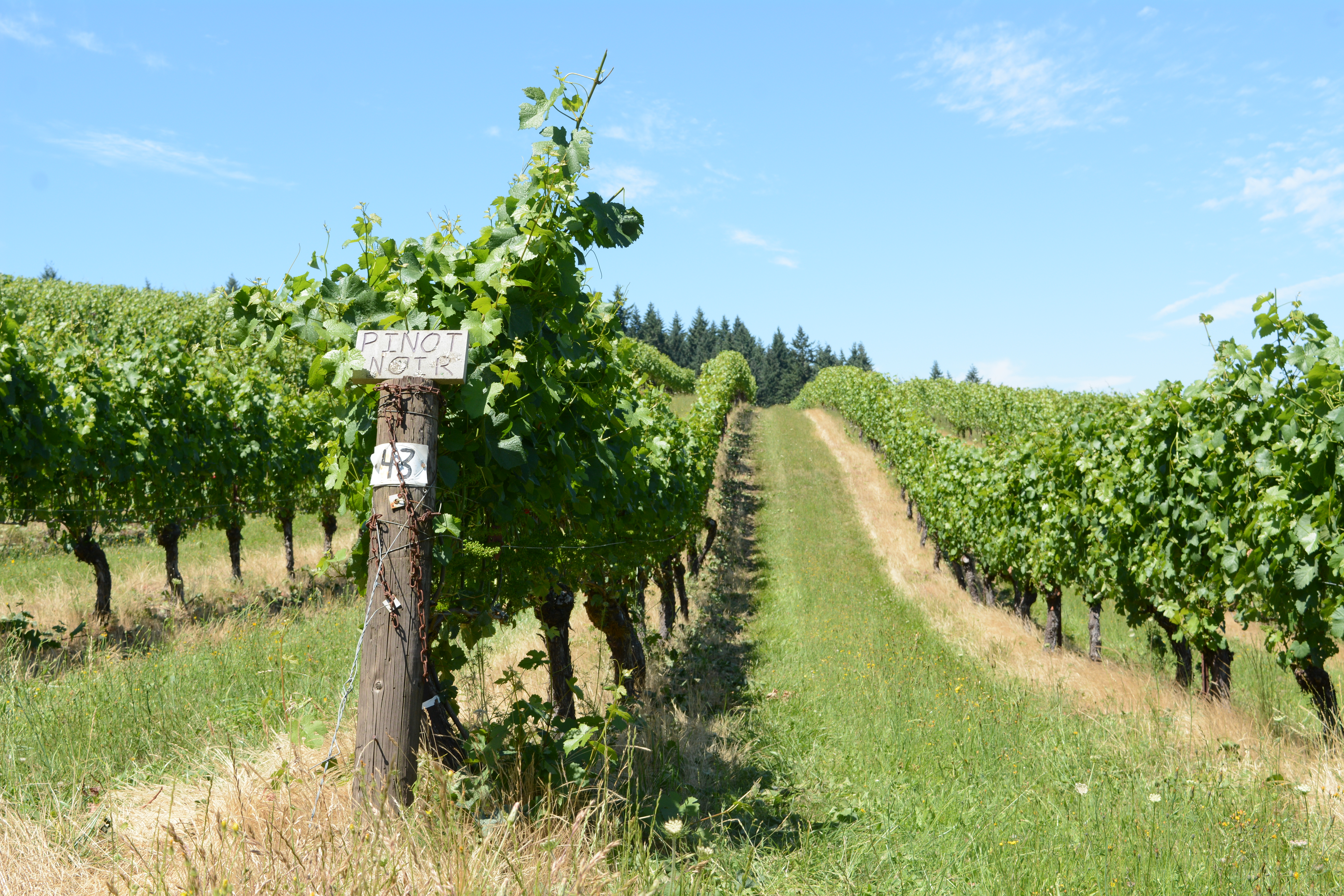 Pinot Noir grapes at Sarver Winery courtesy of Eugene, Cascades & Coast